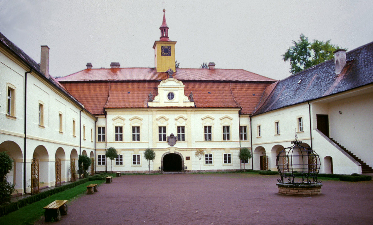 Castle of Chrast, region of Pardubice, Czech Republic